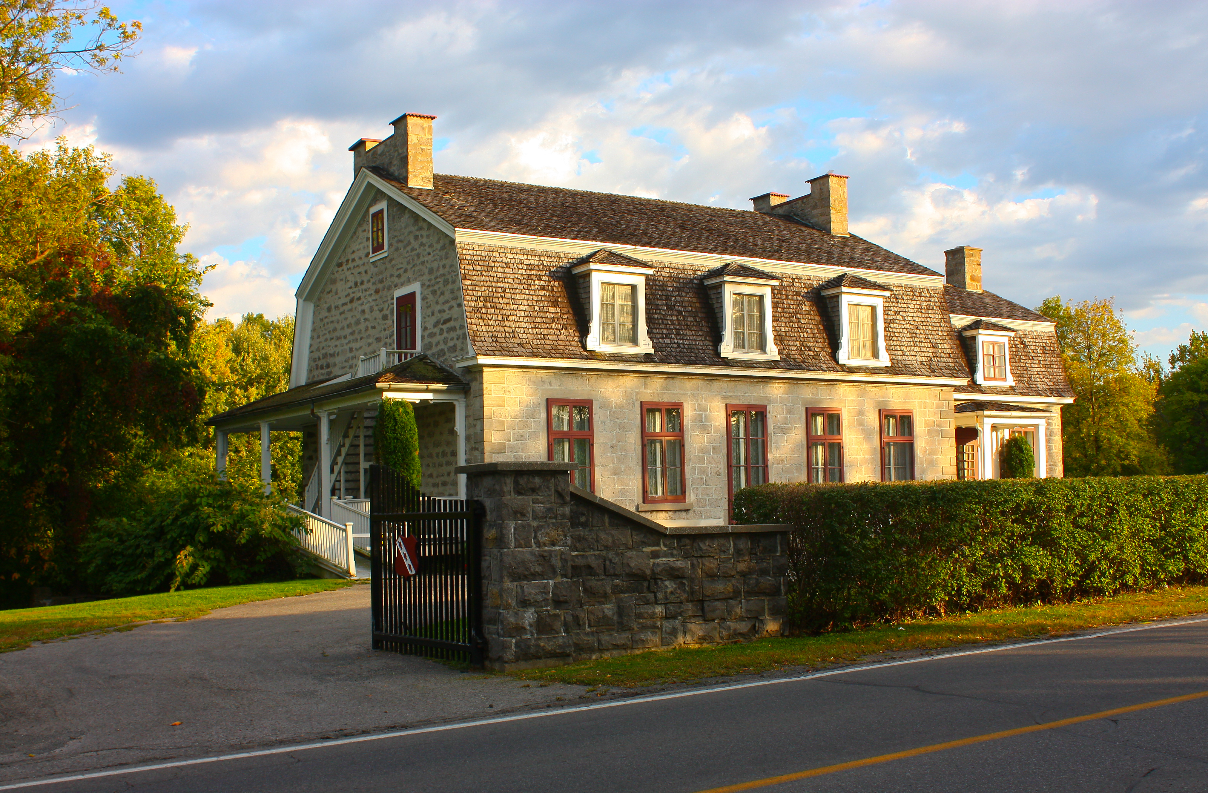 Maison Garth